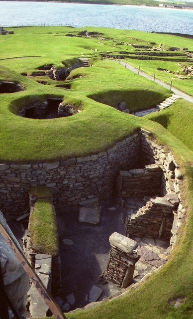 Jarlshof, Grutness, Shetland Islands, Scotland, Great Britain